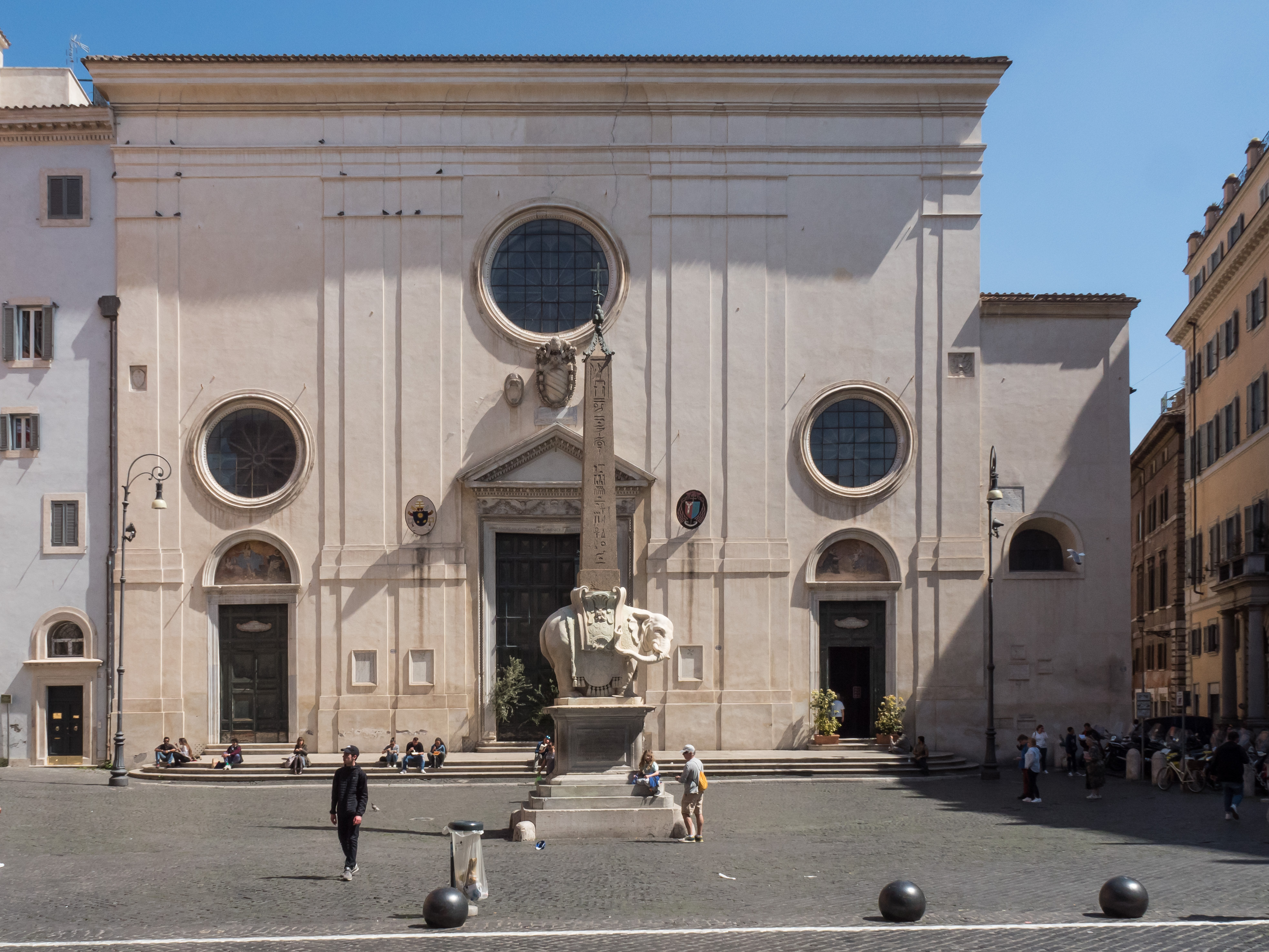 Santa Maria sopra Minerva (Rome); Facade